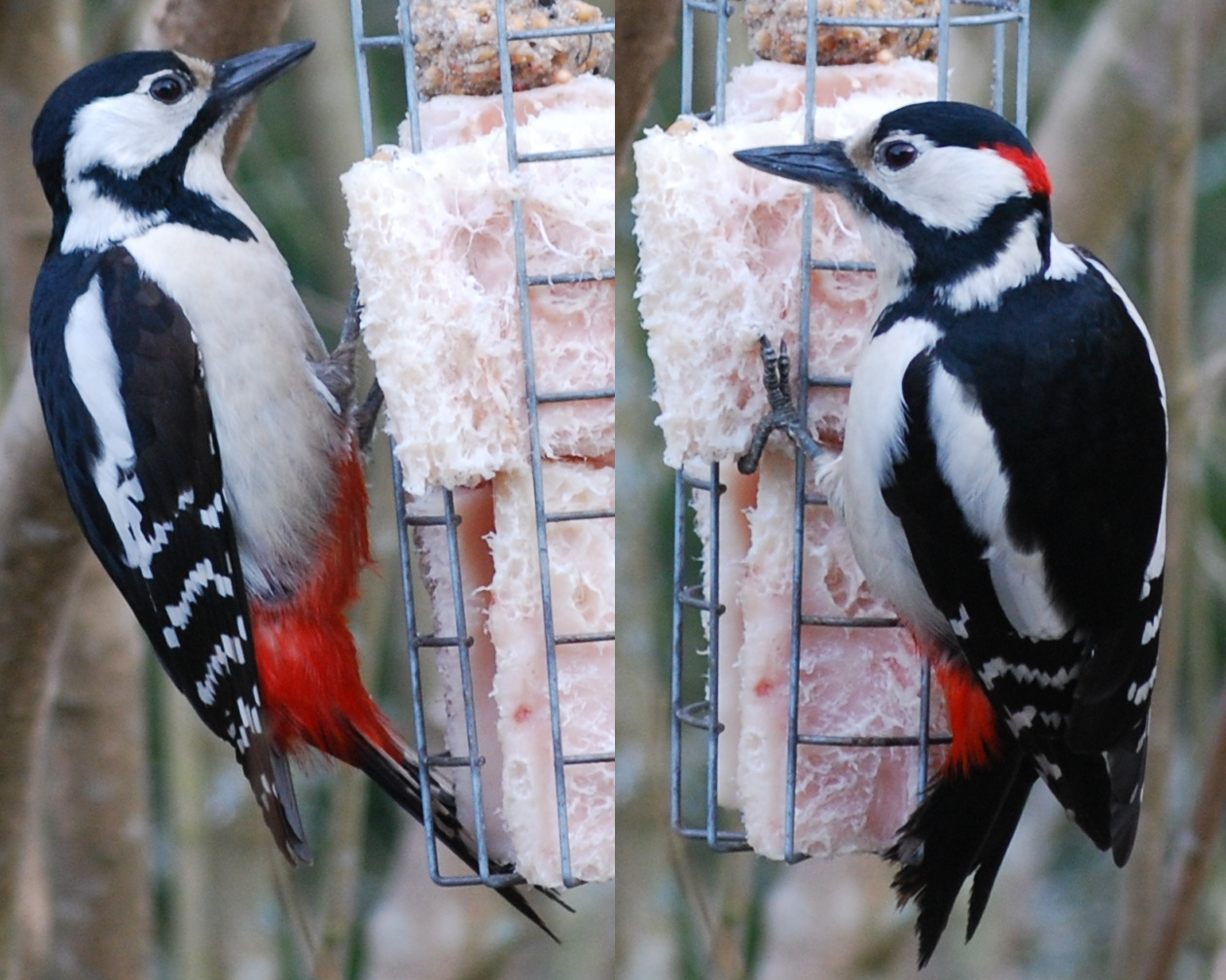 Dendrocopos major, female and male